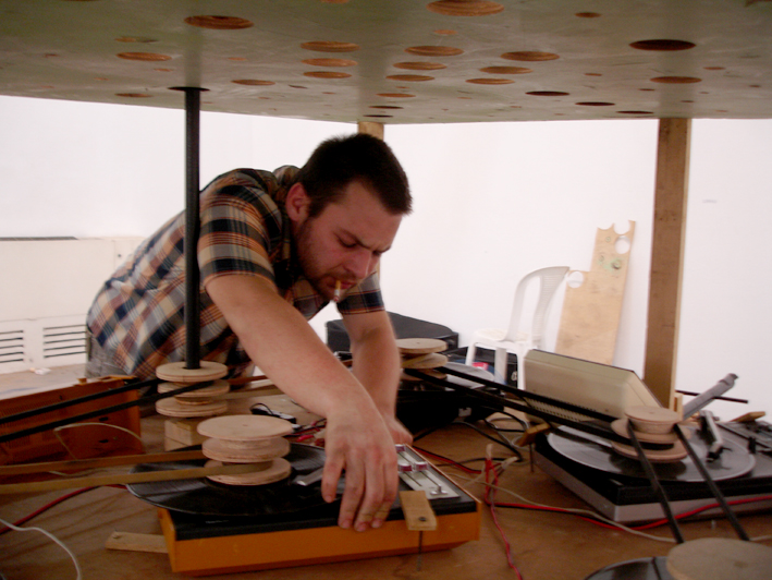 Sud Salon Urbain de Douala, Douala, December 2007 organised by doual'art in collaboration with iStrike Foundation. Photos by Kamiel Verschuren.